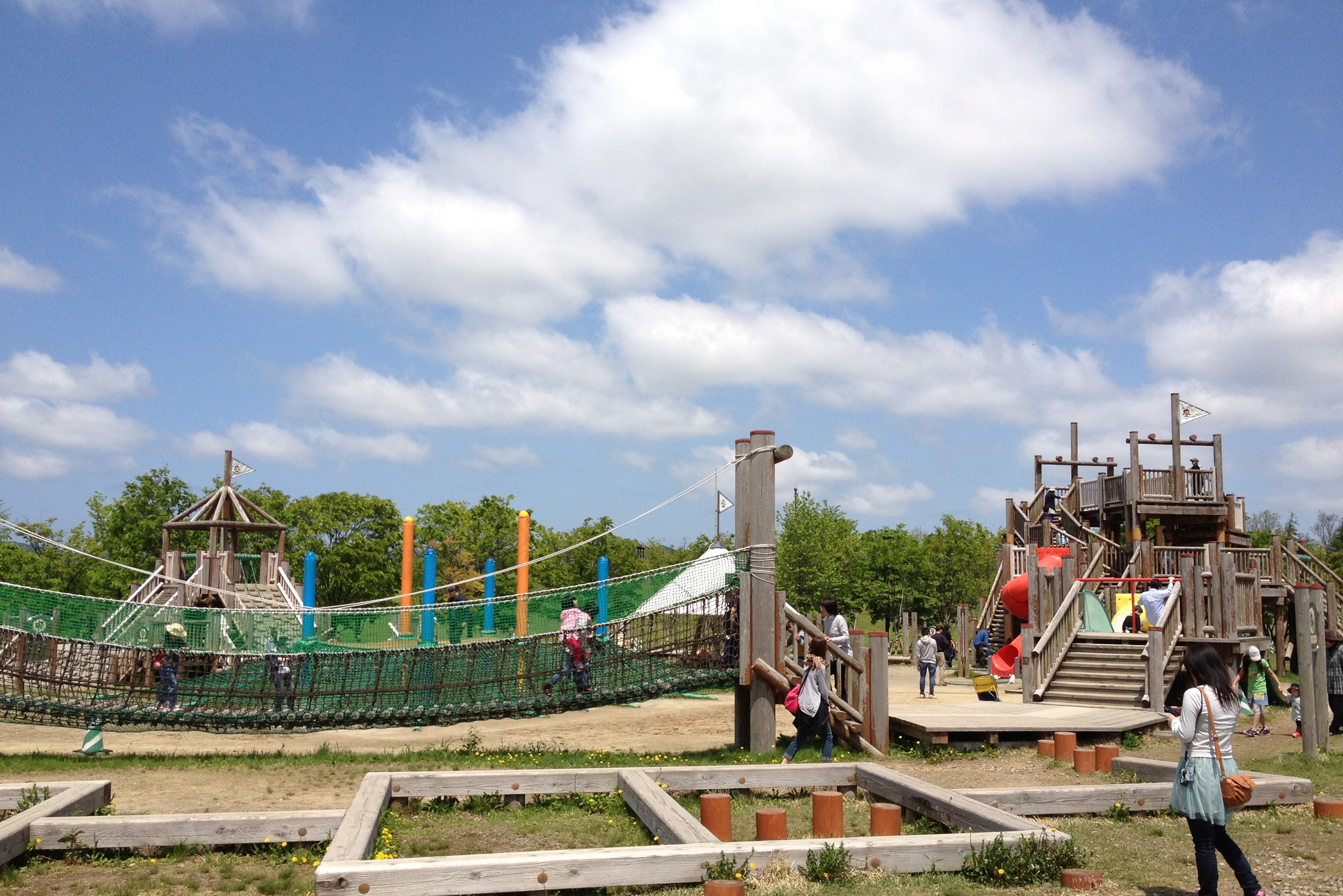 Wooden amusements in Echigo Hillside National Government Park, Nagaoka, Niigata Prefecture, Japan